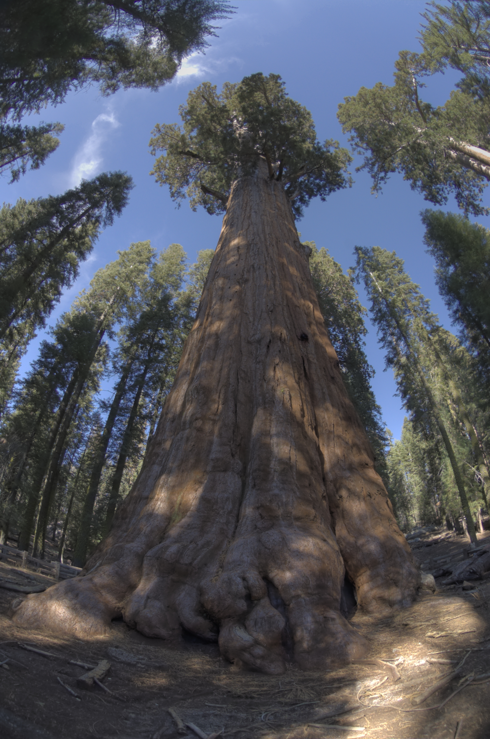 General Sherman, Sequoia & Kings Canyon National Park